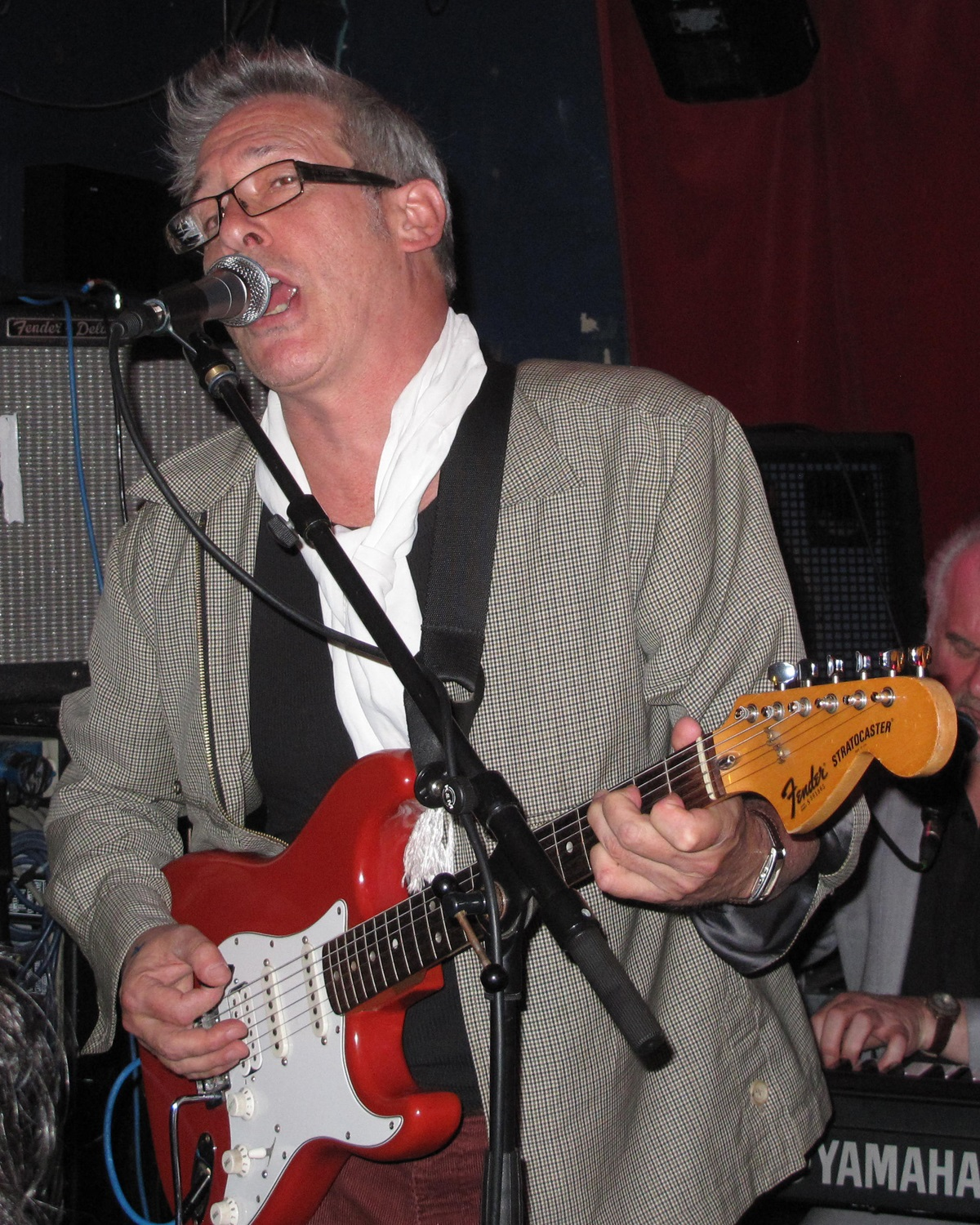 Chas Jankel at Water Rats, London, 13.07.11